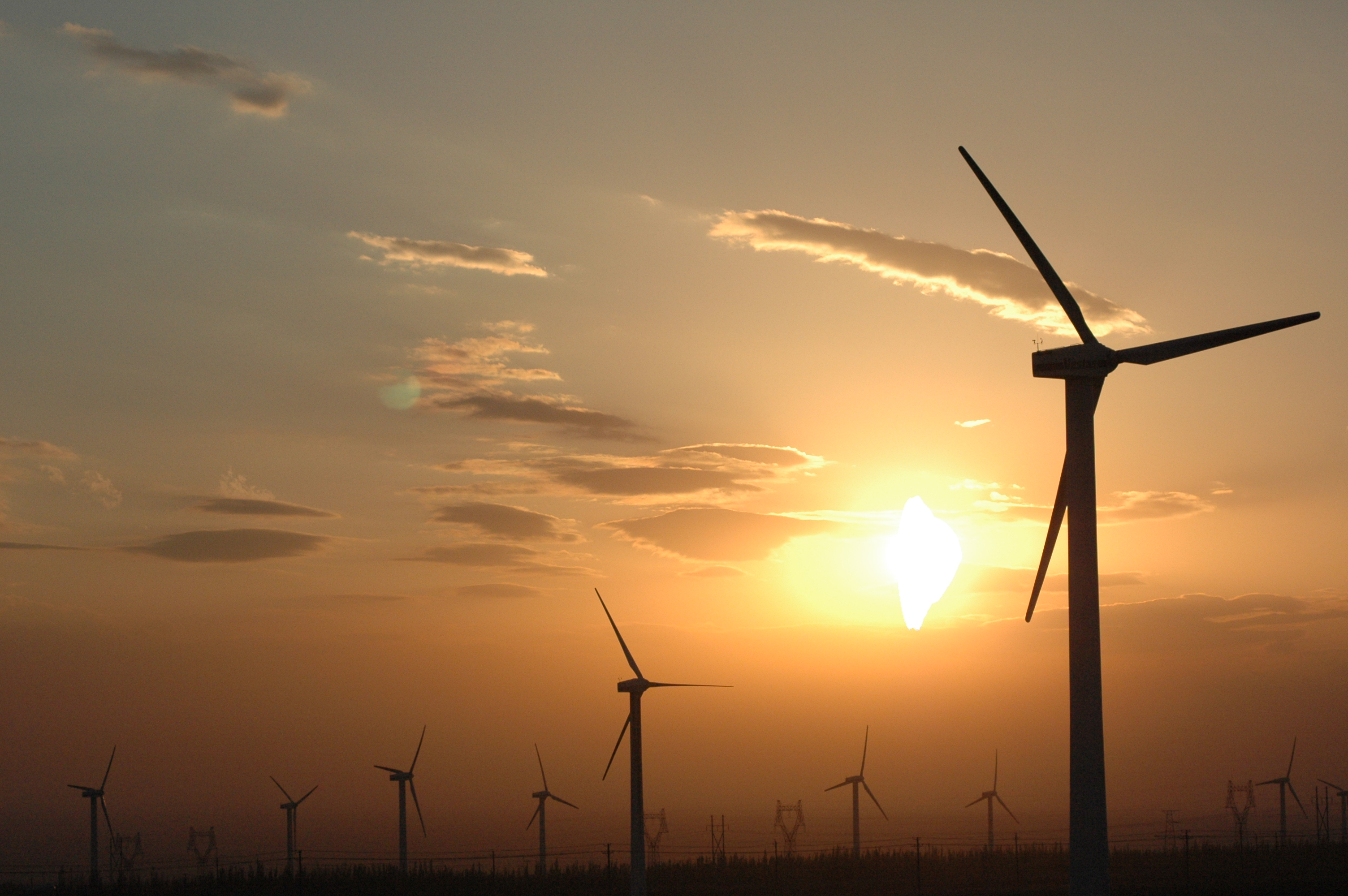 Wind power plants in Xinjiang, China (Taken with a Nikon D70.)